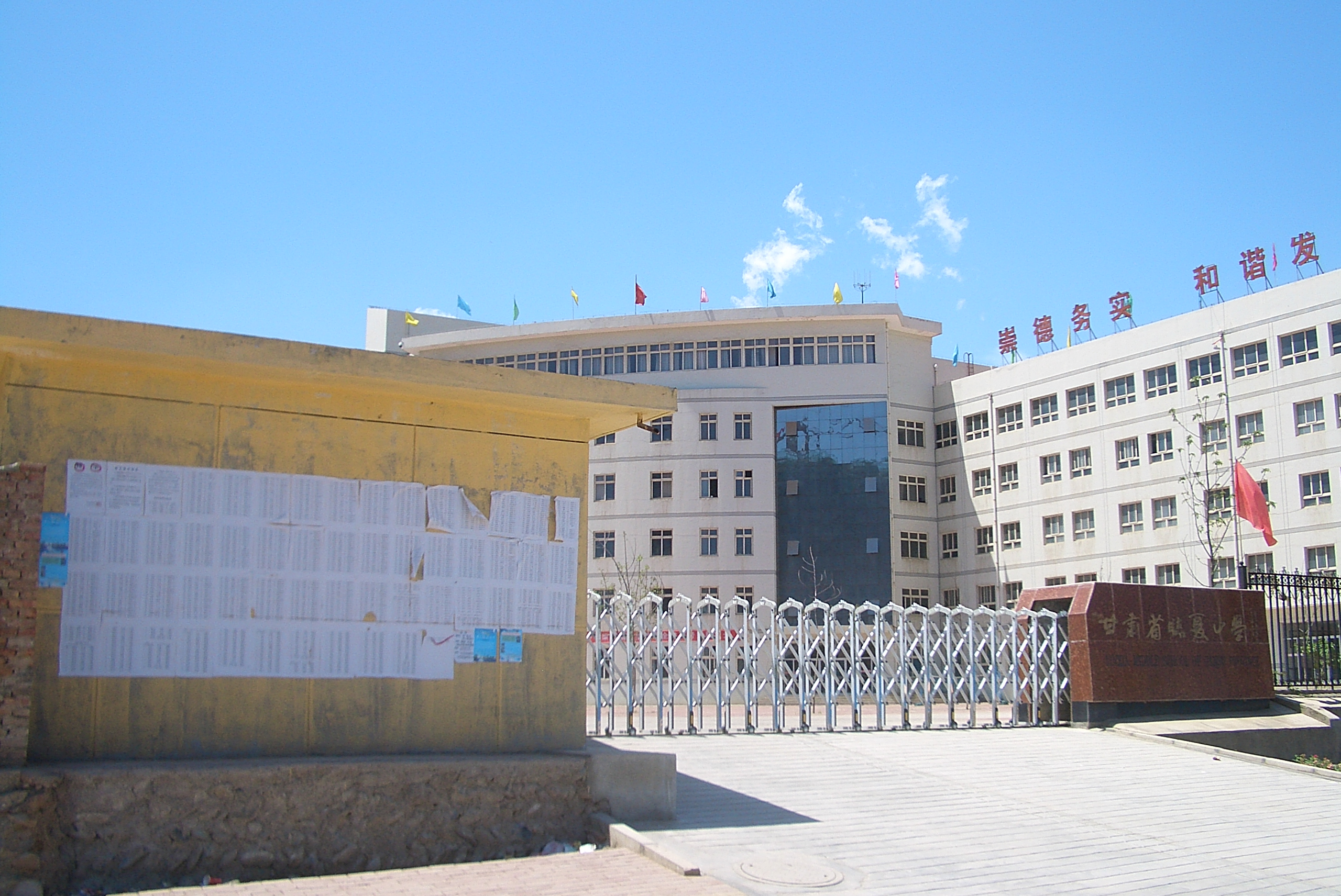 Linxia High school, in the northeast of Linxia City. Lists of newly admitted students are posted by the gate.